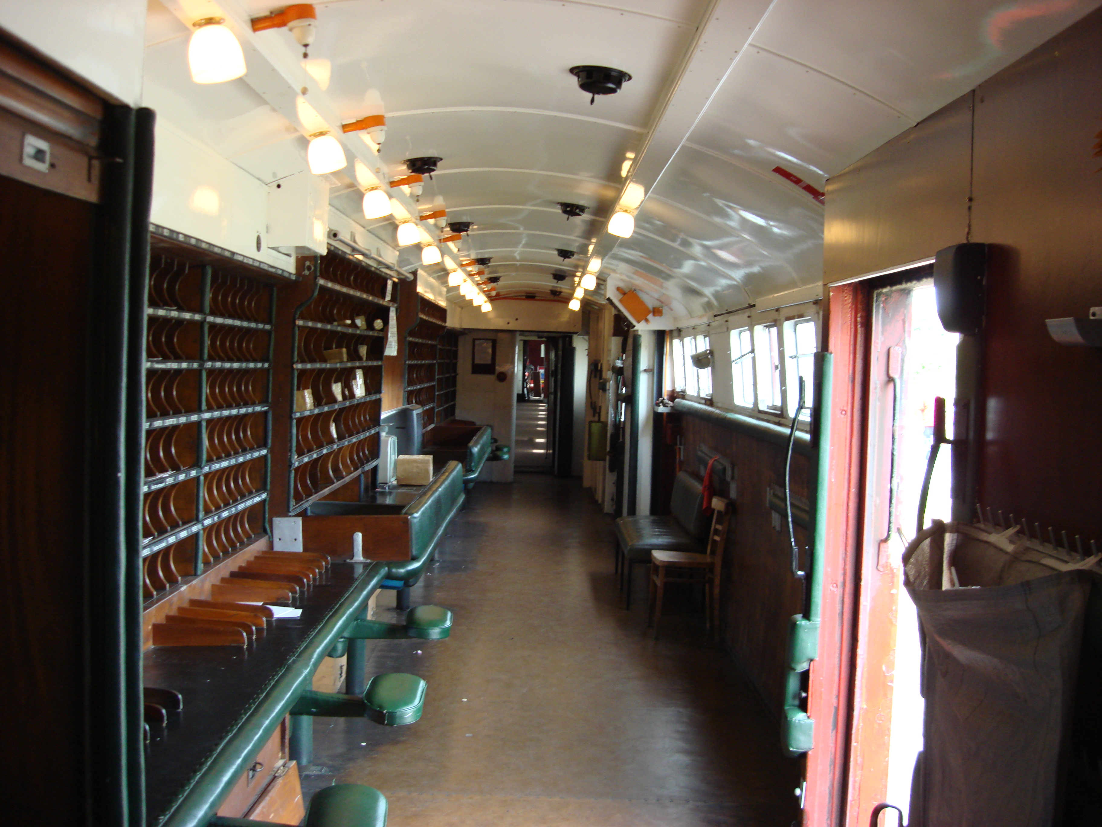 Interior of a Royal Mail, Traveling Post Office (TPO) at the Colne Valley Railway